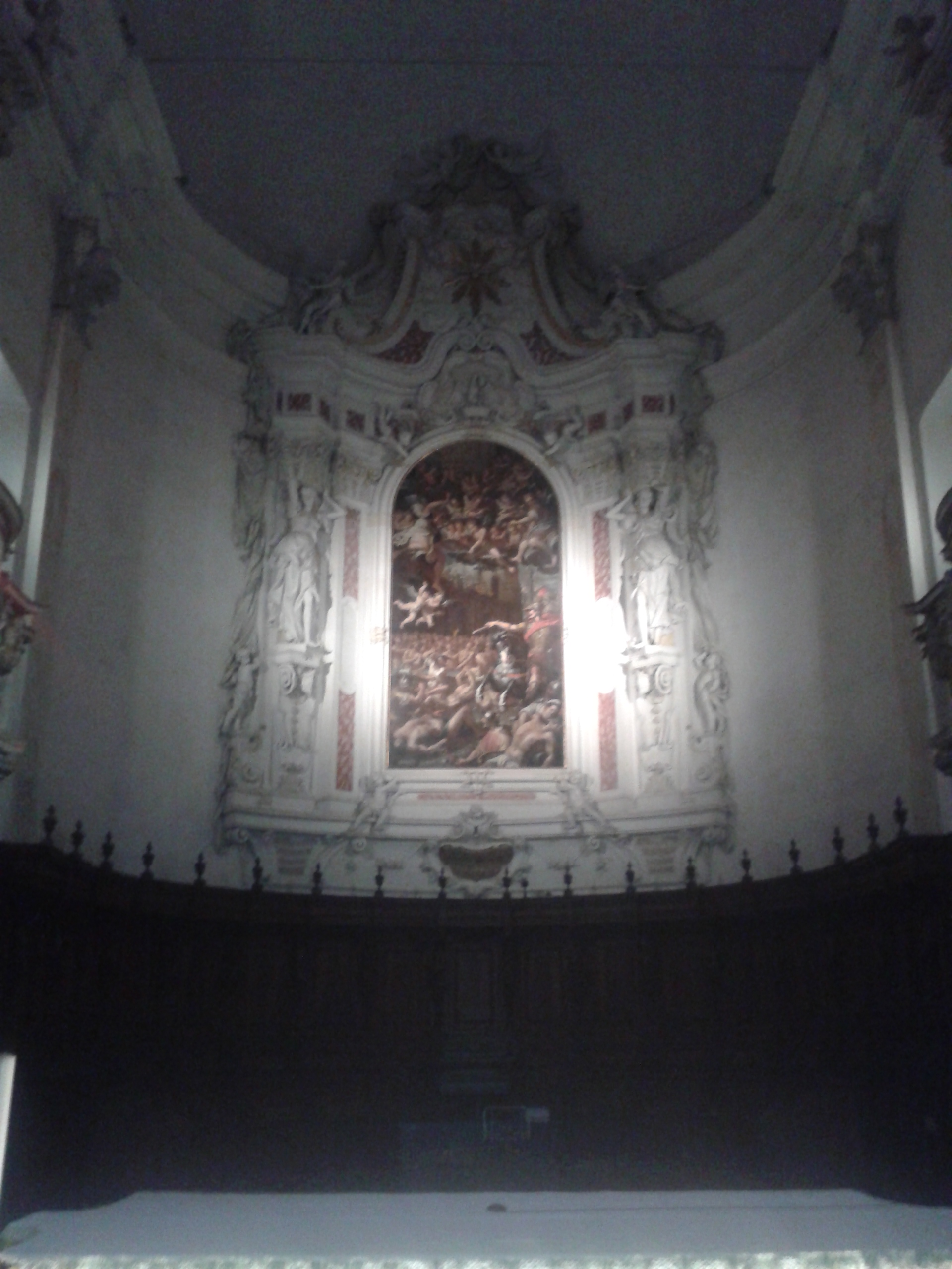 Pala dei SS Quaranta in Sant'Agnese